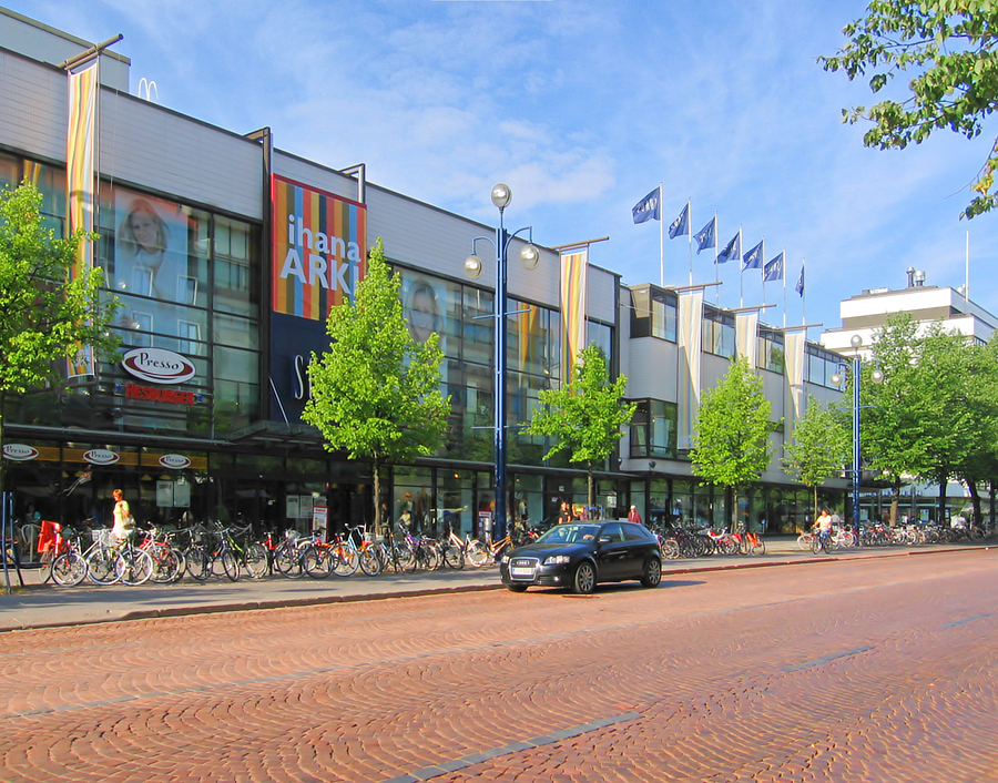 Sokos department store in Lahti